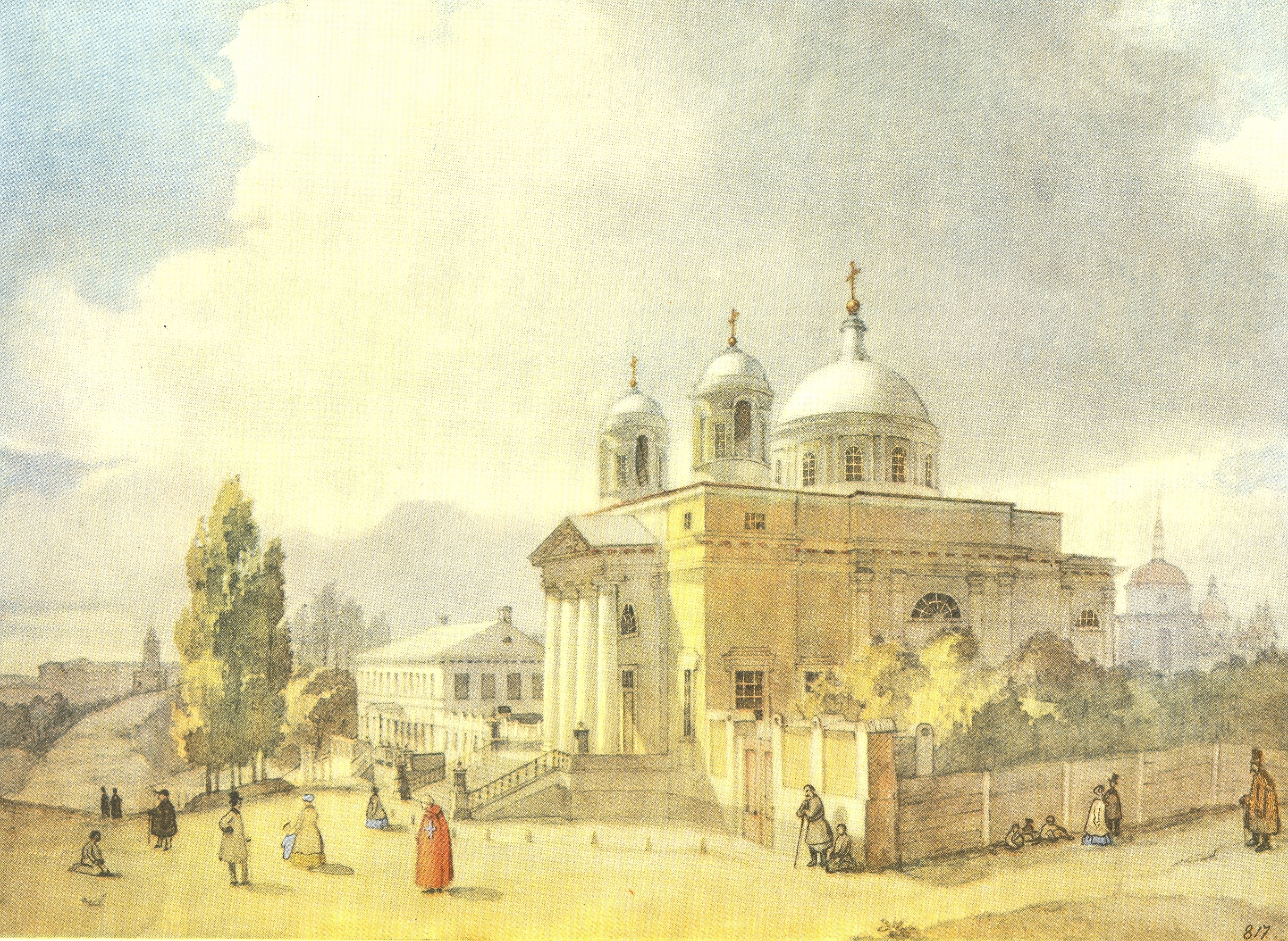 Painting of Taras Shevchenko. Church in Kyevi